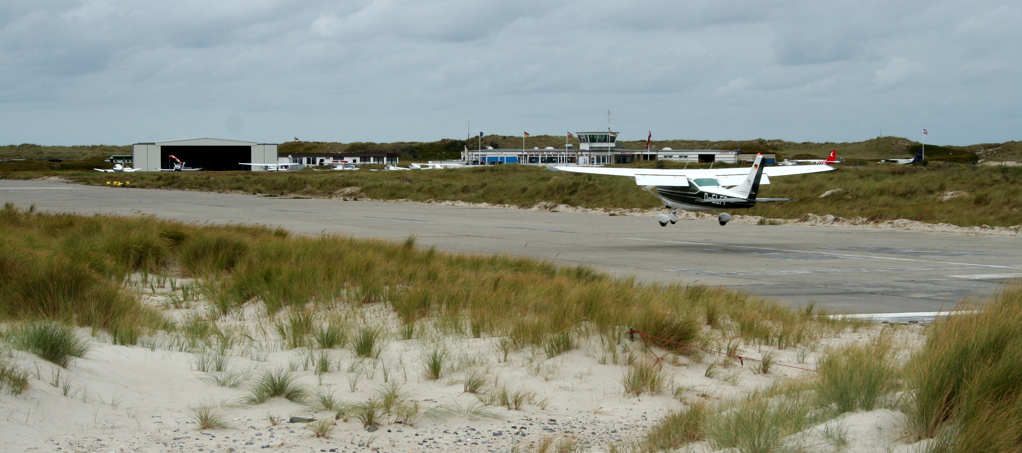 Airport Heligoland-Düne